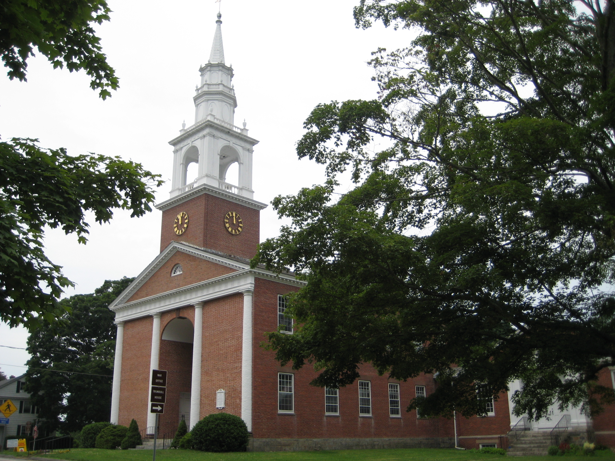 Photo of the First Congregational Church of Lebanon, CT taken from public land.